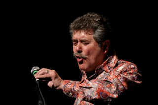 The Canadian writer and arts administrator, Steven Ross Smith. The photo was taken by James Tworow at the 2010 Calgary International Spoken Word Festival.